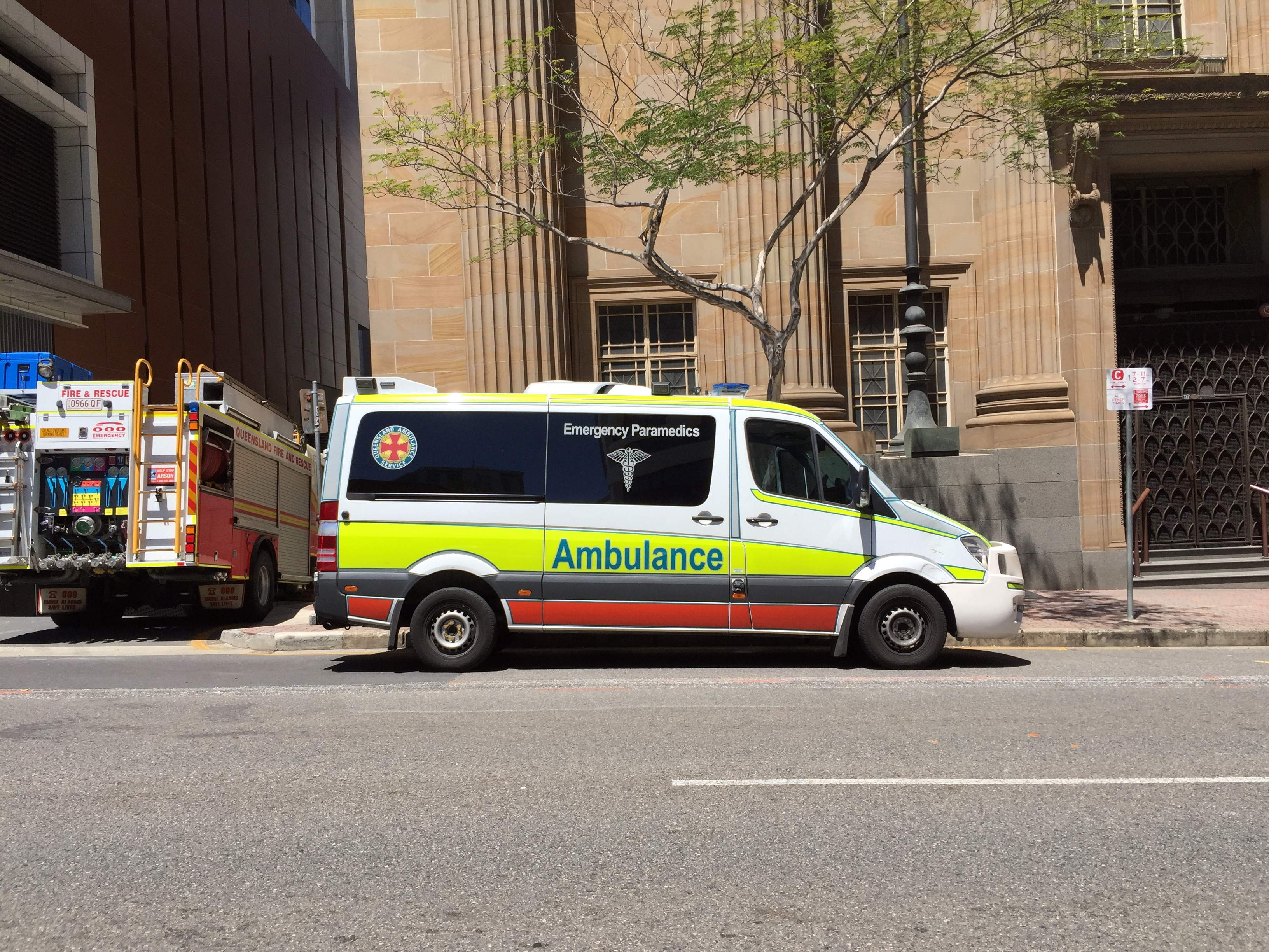 St John Ambulance vehicle in Brisbane, Qld, Australia